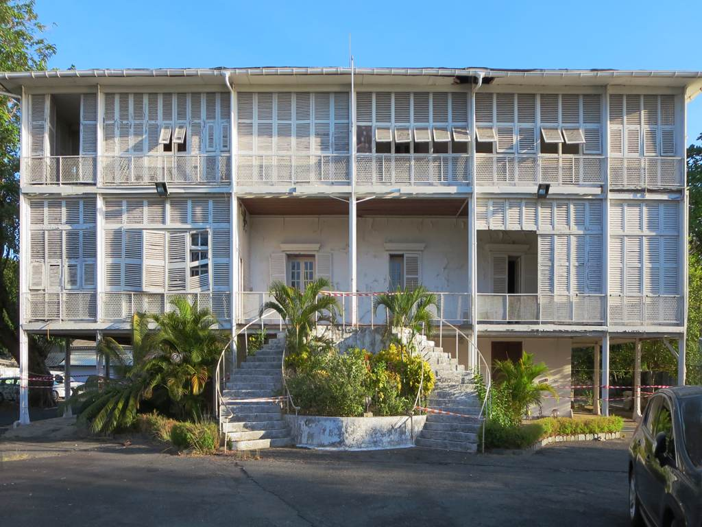 The former prefecture in Dzaoudzi, Mayotte.